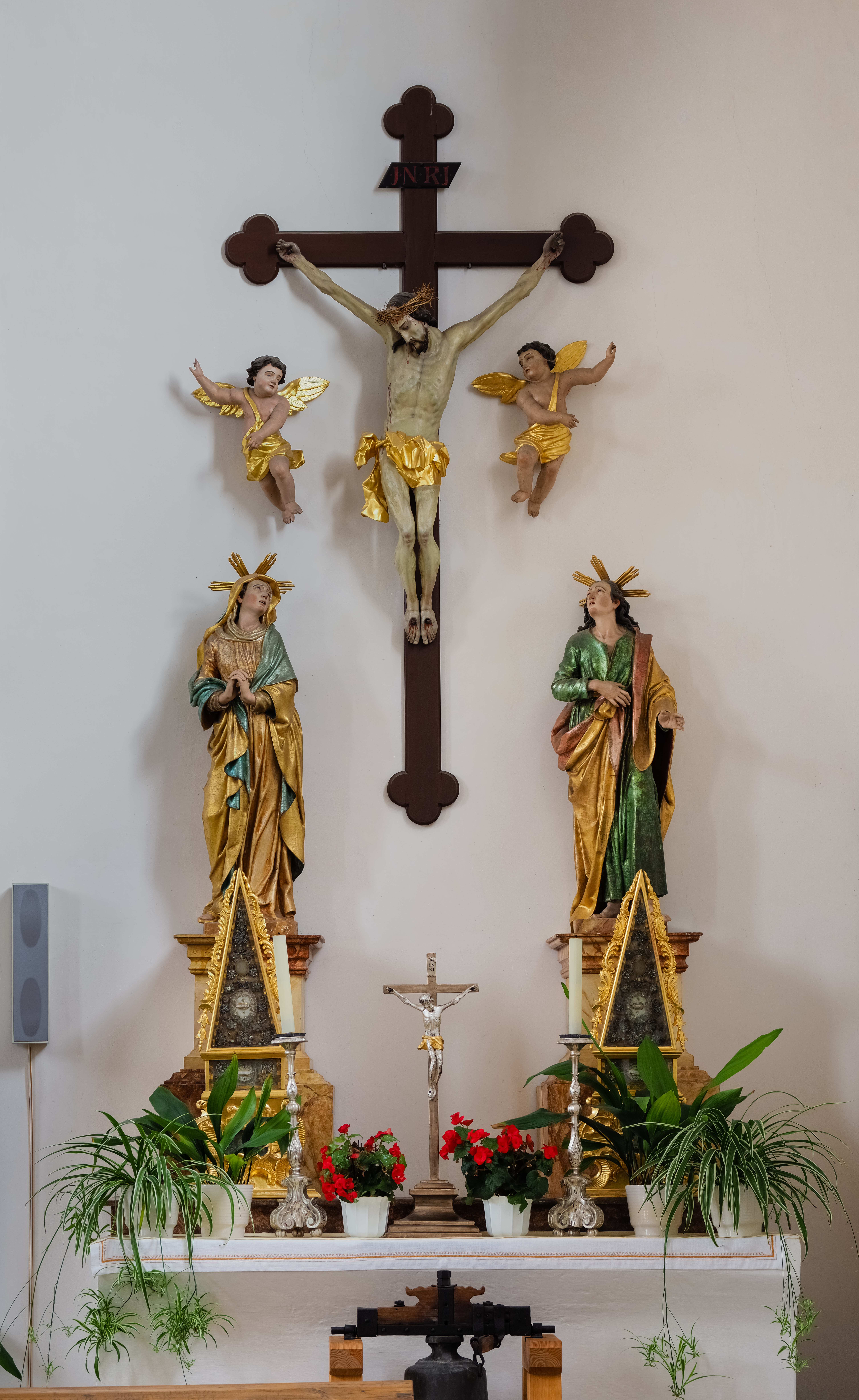 Side altar in the Catholic cemetery church St. Leonhard in Michelfeld in Upper Palatinate